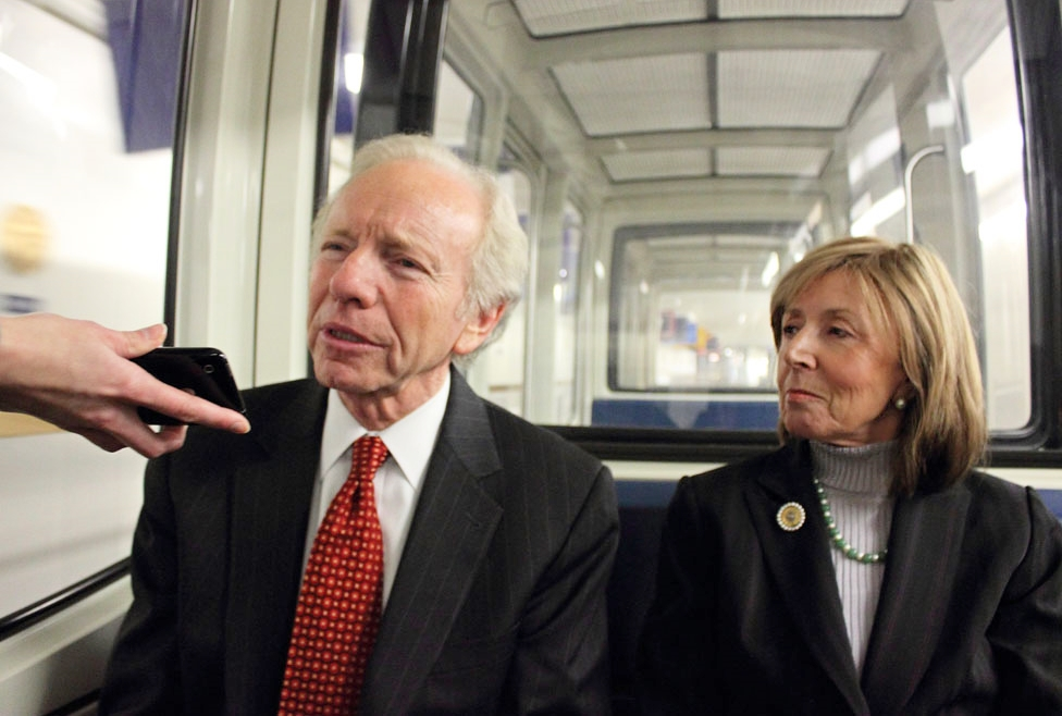 2011 State of the Union